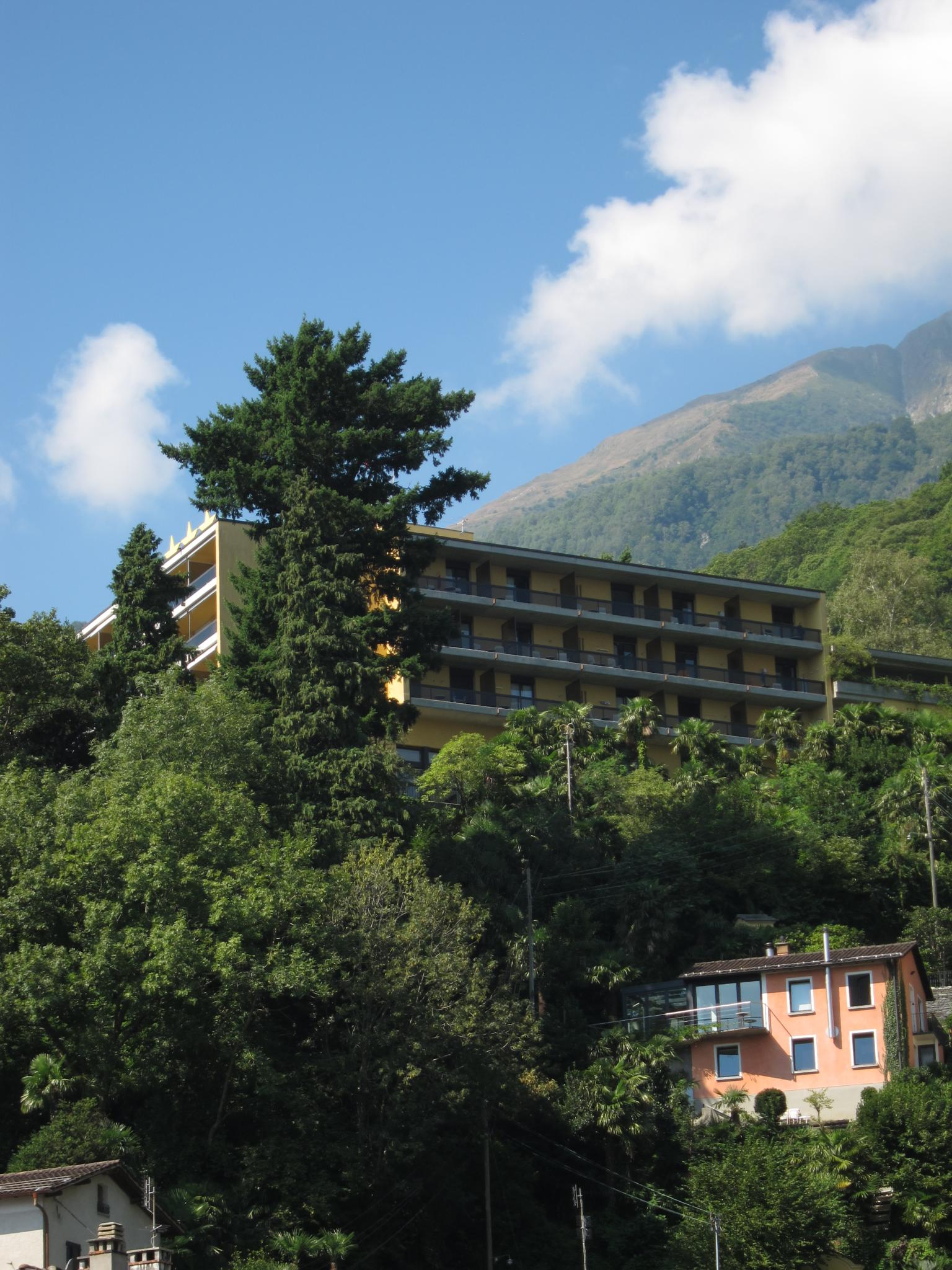 Building (hotel?) and houses in the Porta section of Brissago, Ticino, Switzerland